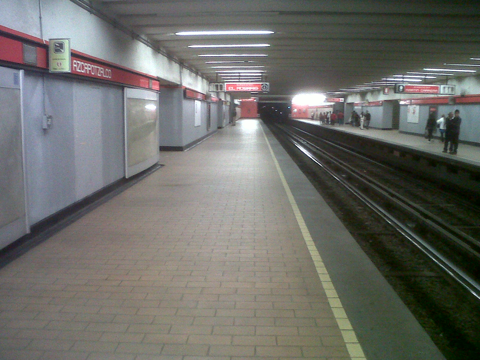 View from the front to the back